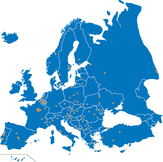 This is a map of Europe with all the cities in which there is a BEST local group.